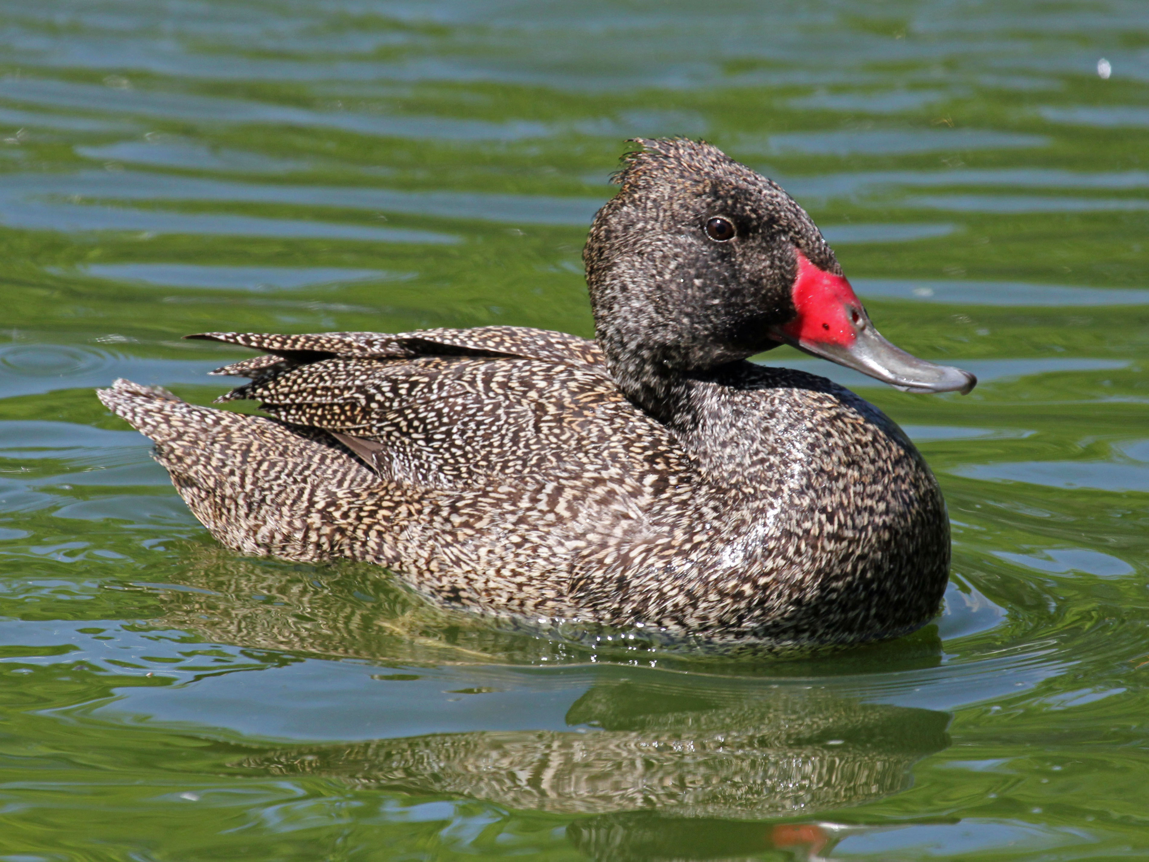 Male Freckled Duck (Stictonetta naevosa) at Sylvan Heights Waterfowl Park in Scotland Neck, North Carolina.